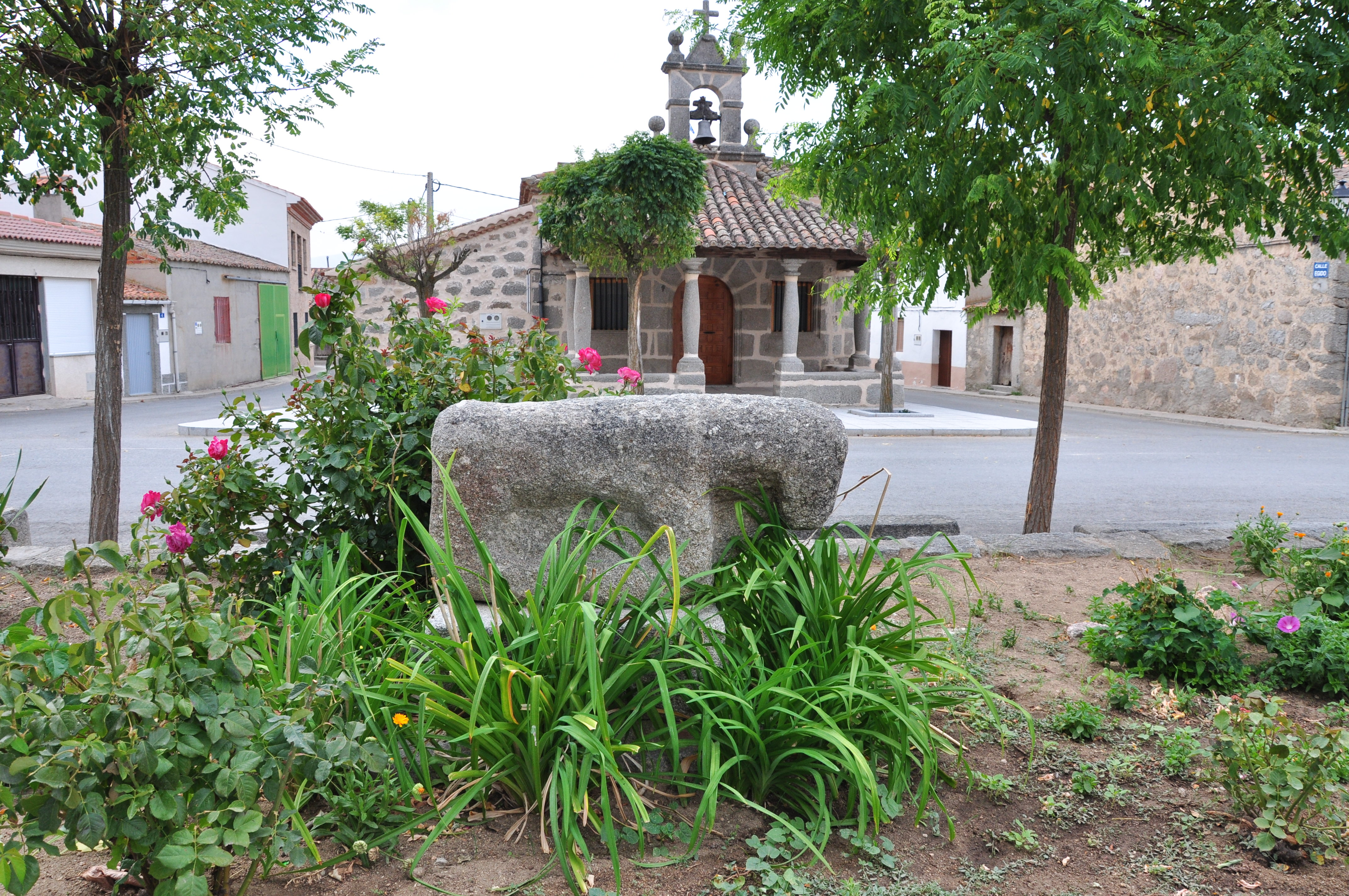 "Verraco" of Santa María del Arroyo, province of Ávila, Spain. Vettone´s sculpture.